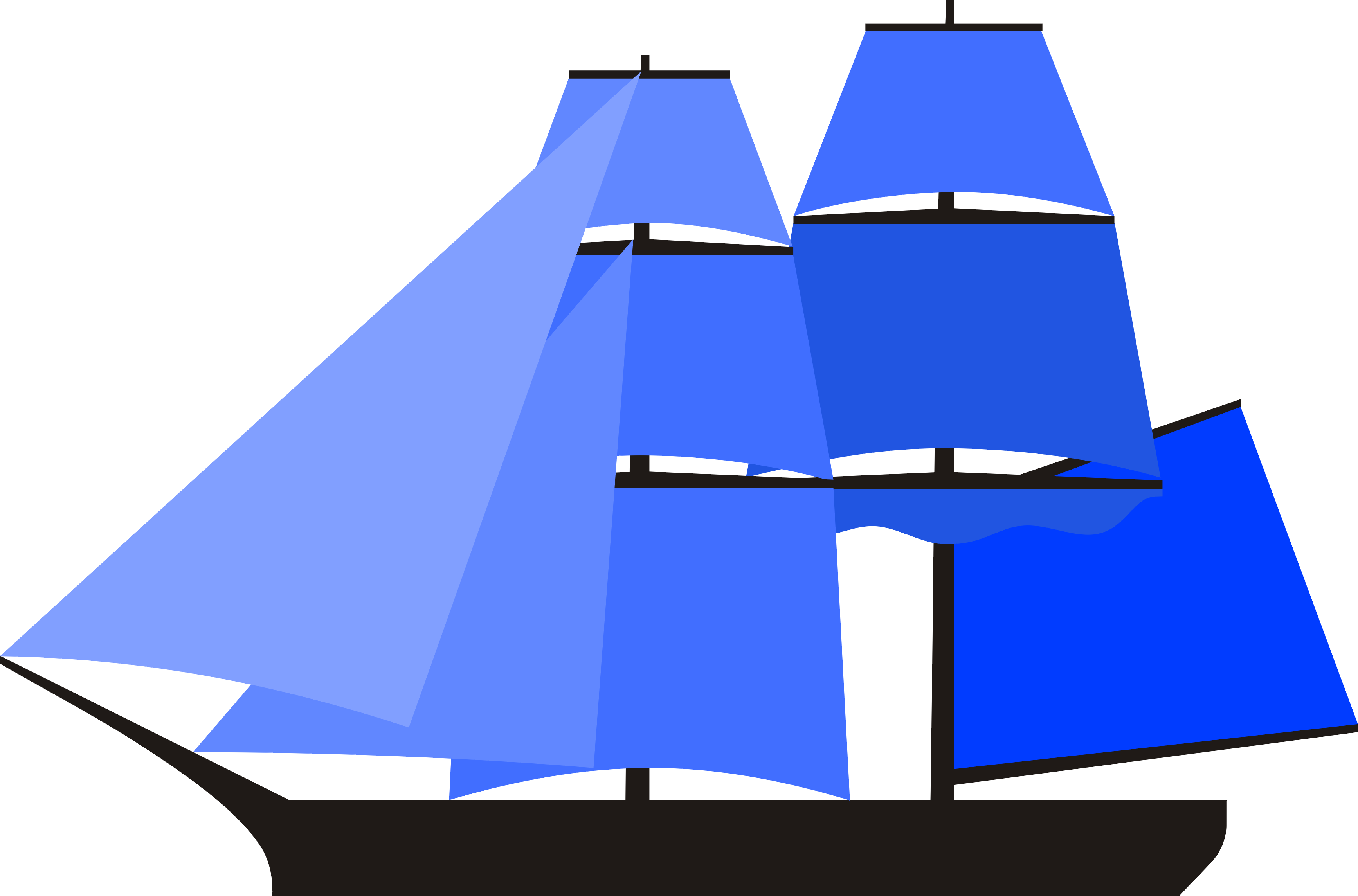 The full-rigged Brig is a vessel with two masts, fore and main, both of which are fully square-rigged. The mainmast also carries a small fore-and-aft gaff-sail for improved maneuverability.